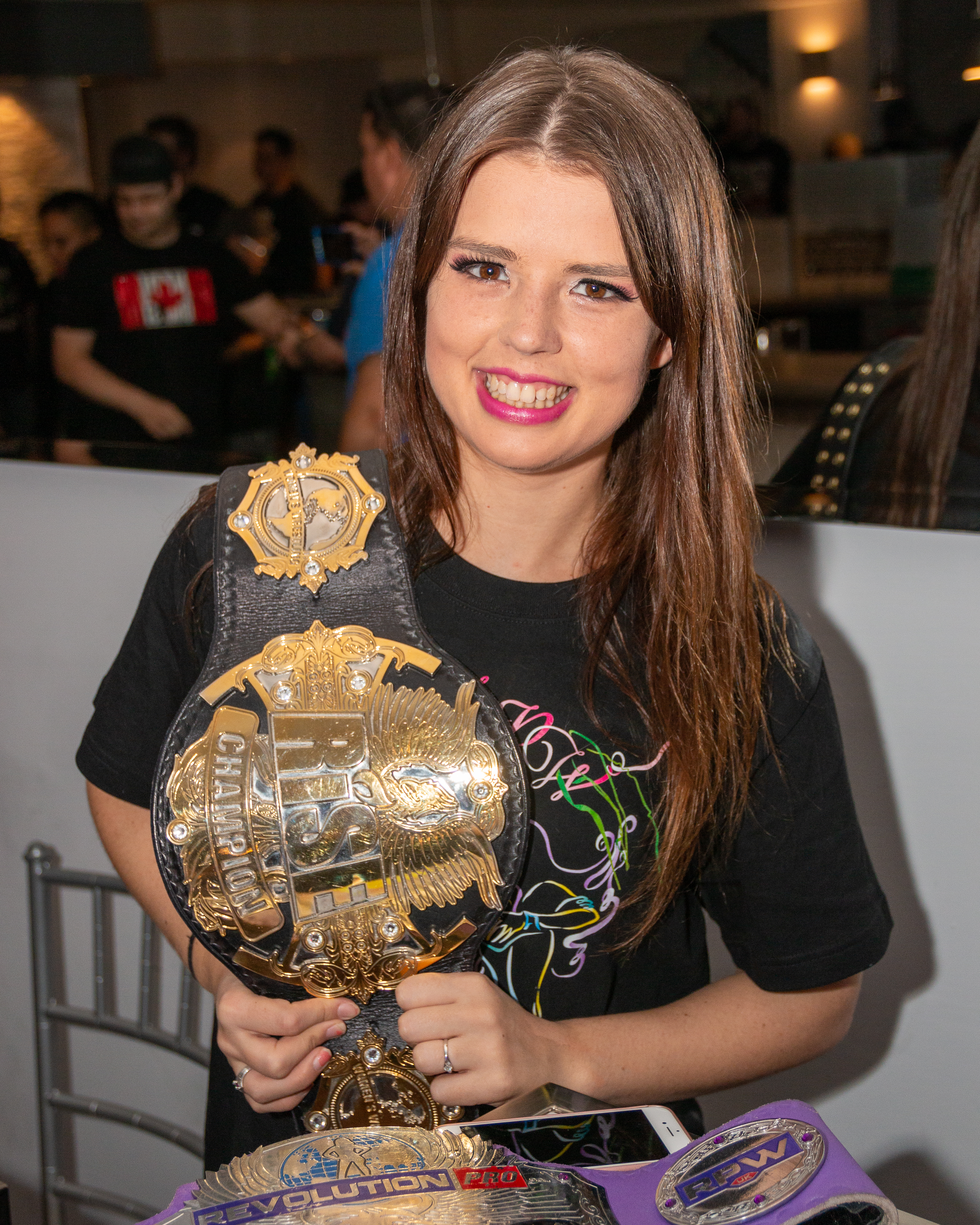 Independent wrestler Zoe Lucas posing with the Phoenix of Rise Championship at Smash Wrestling's The Summit show in Toronto, ON